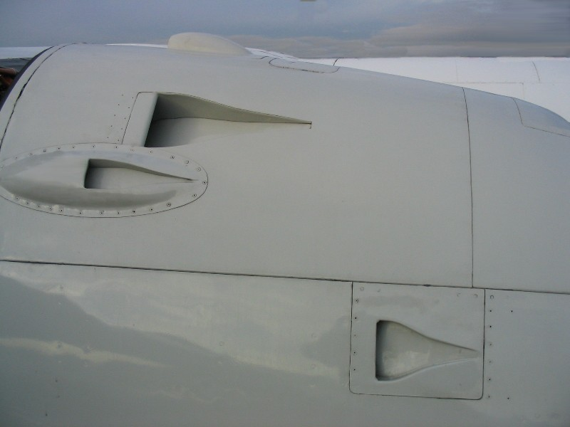 NACA submerged inlets at aeroplane